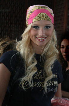 Miss Sweden 2007 Annie Oliv. Photo taken in Miss World 2007, Sanya 1/12/07